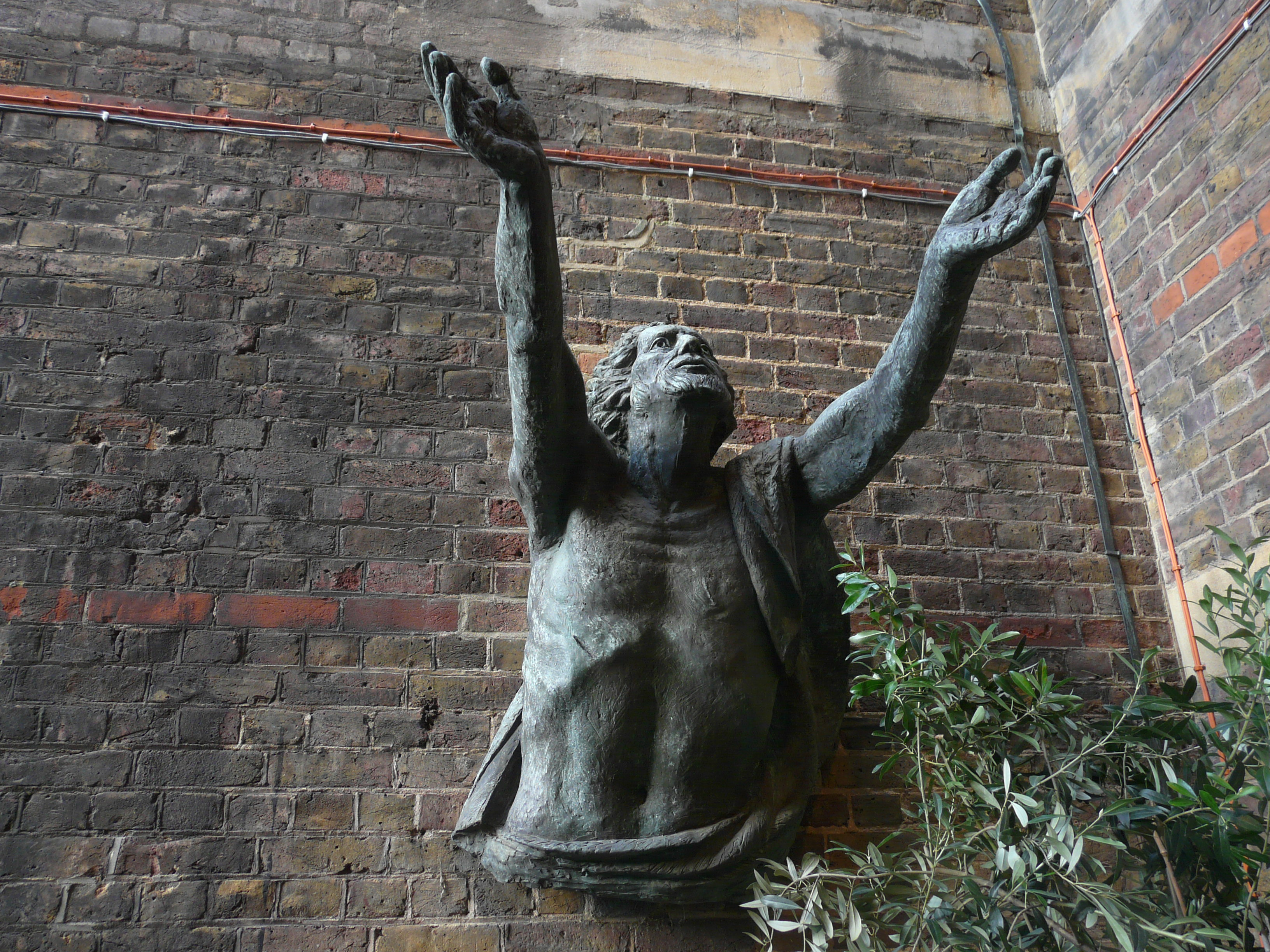 'Jesus Being Raised From the Dead', Hans Feibusch, The Church of S.Alban the Martyr, Holborn